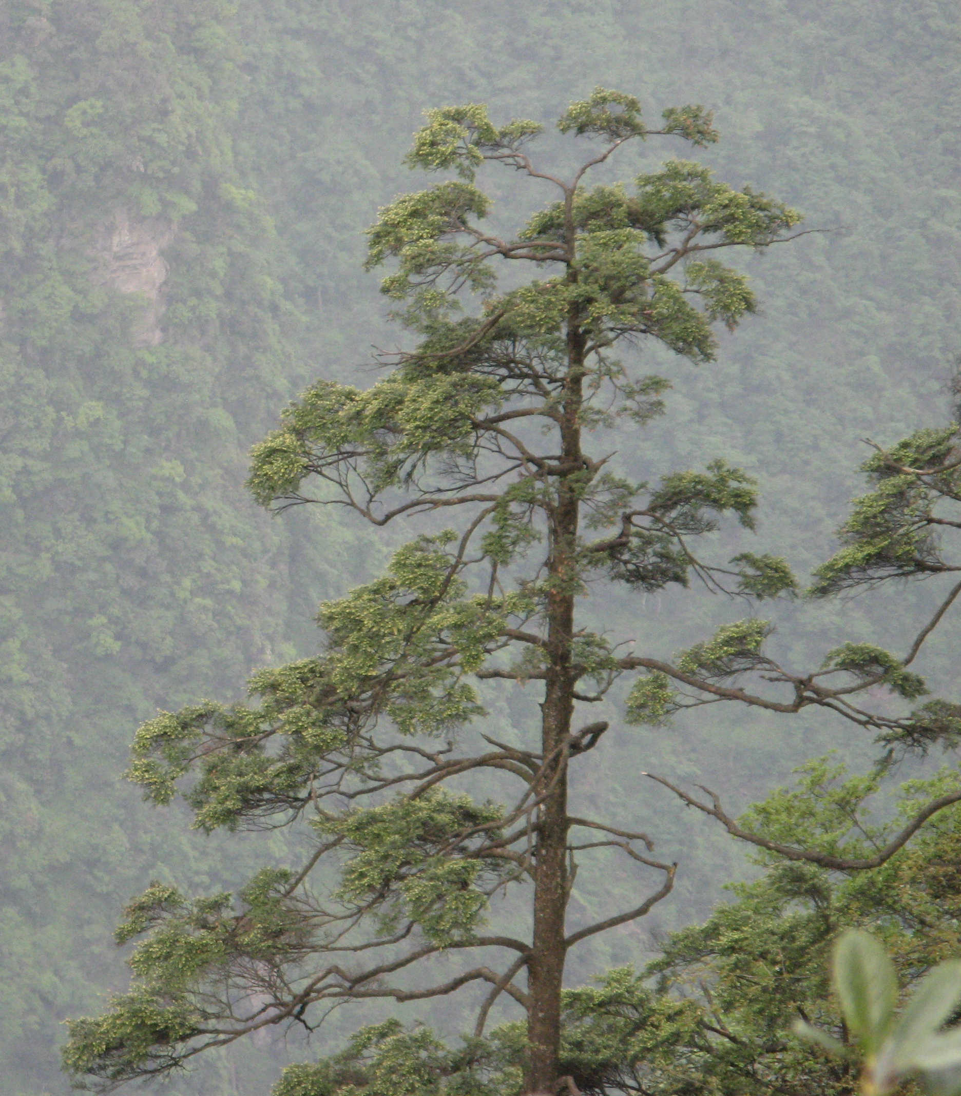 Tsuga dumosa, Emei Shan, Sichuan, China